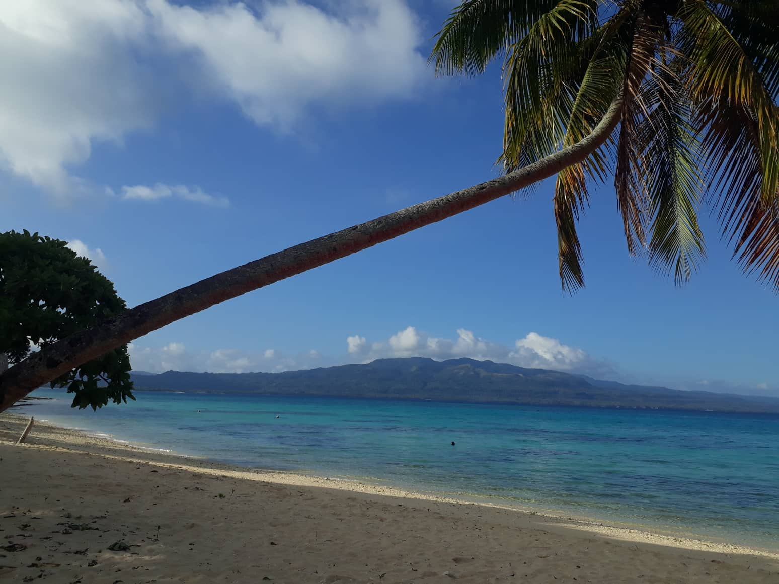 Werearu beach in Pélé island, Vanuatu.